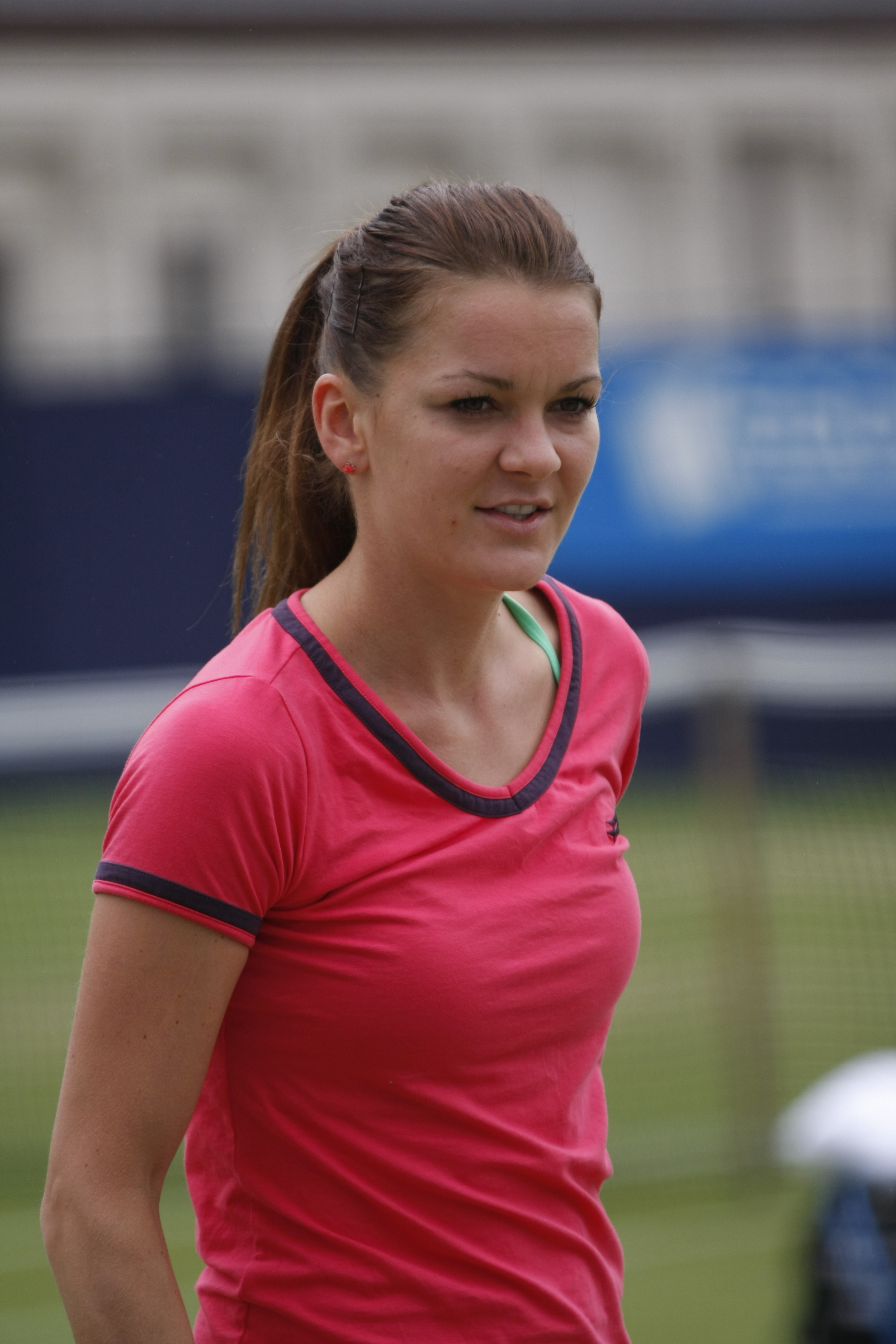 Radwanska at the Aegon International Tennis, June 2014